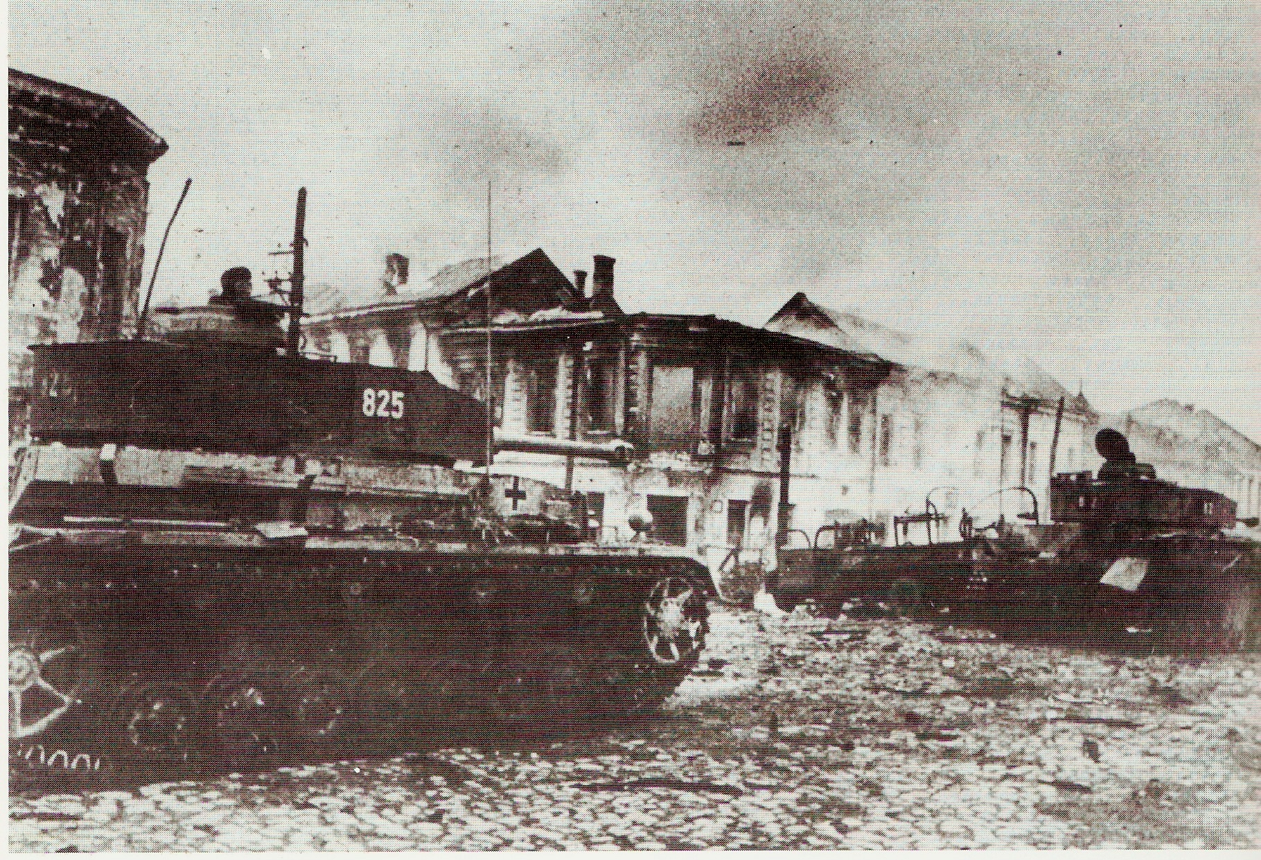 German panzer pass through Zhitomir in november 1943